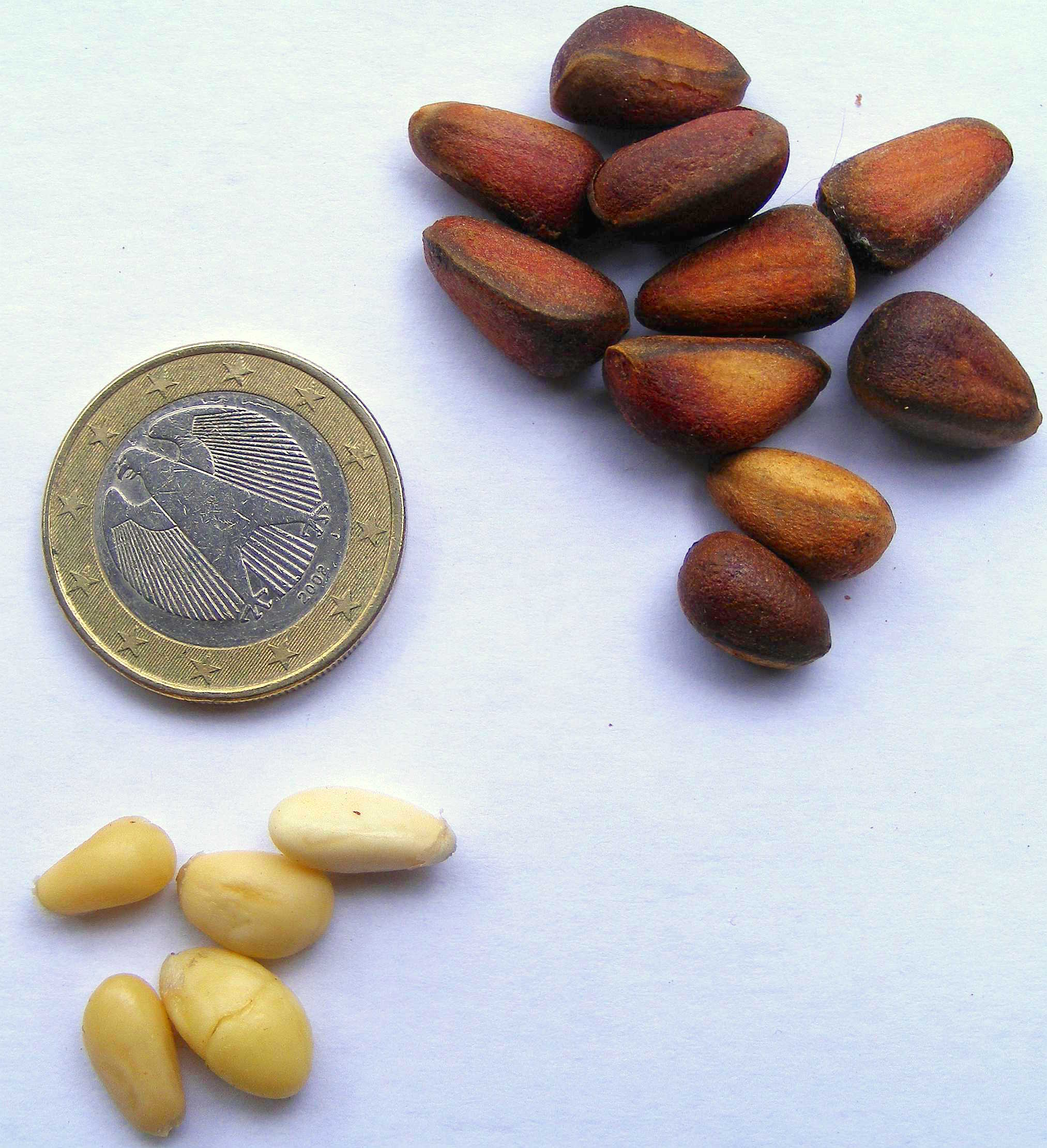 Pinus cembra seed with and without their shell